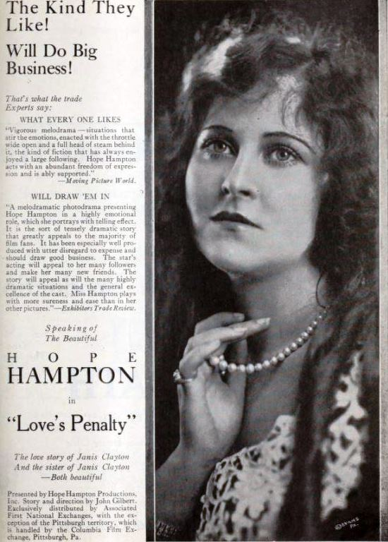 Advertisement for the American drama film Love's Penalty (1921) with Hope Hampton, on page 29 of the June 11, 1921 Exhibitors Herald.